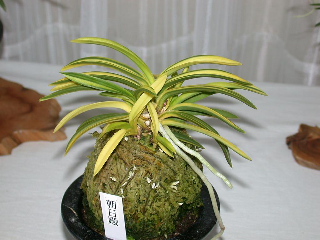 Name Neofinetia falcata 'Asahi-den' （富貴蘭；朝日殿） Family Orchidaceae Date: 2006.06; Tanabe City, Wakayama Prefecture, Japan Author; Keisocho